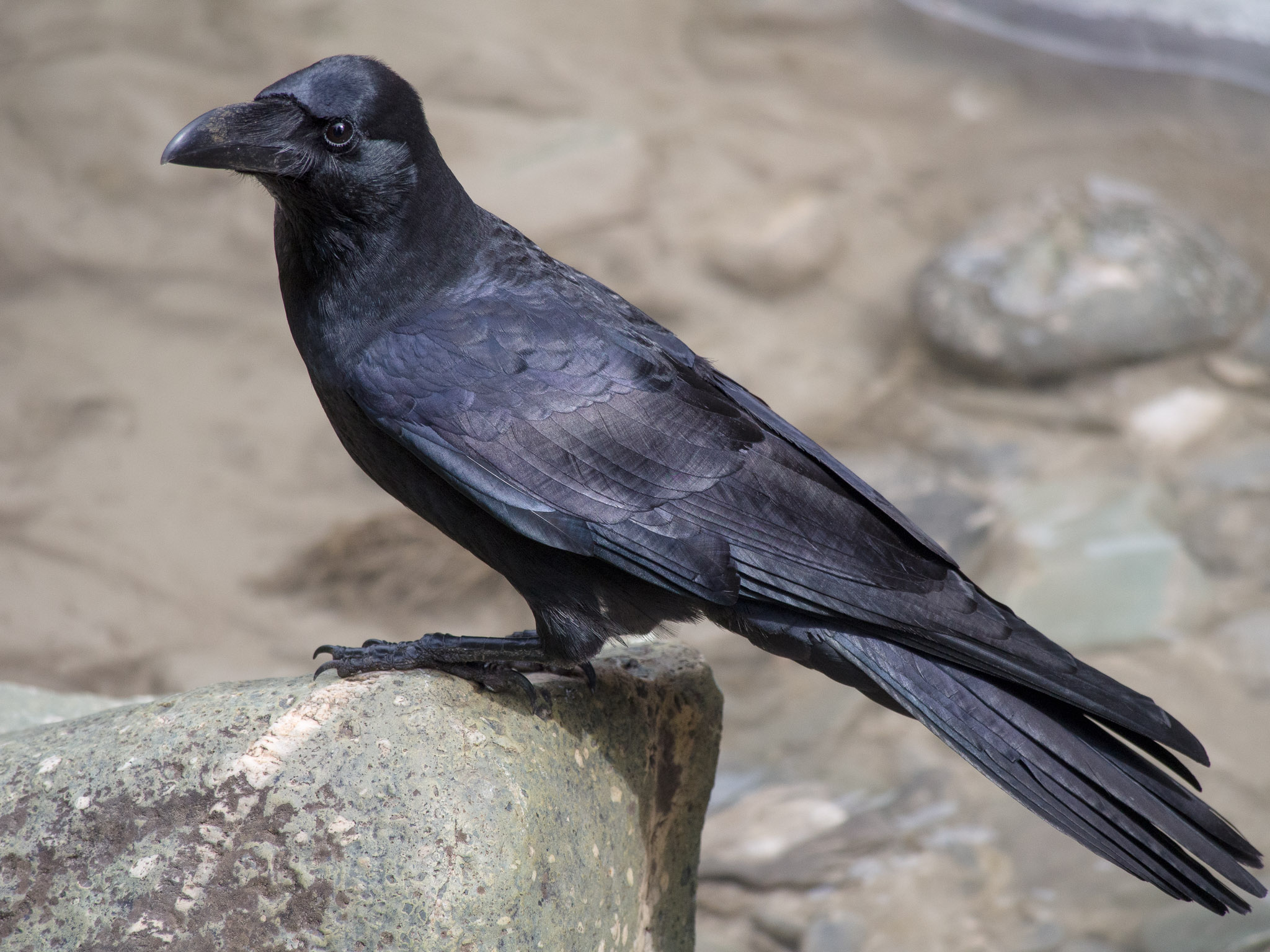 Large-billed Crow